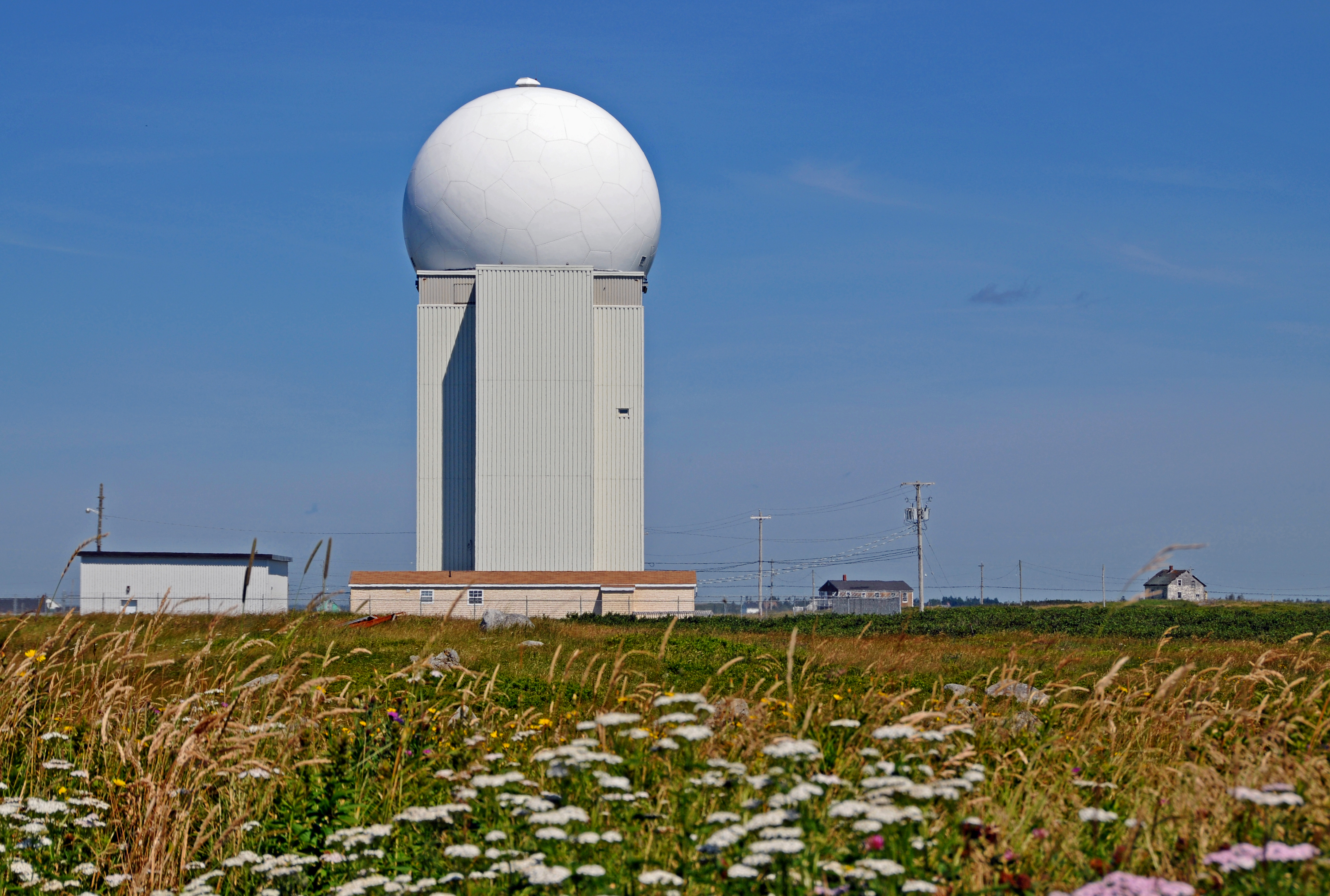 This is the first thing you see at Baccaro Point, it is next to the lighthouse (previous shot). Canadian Forces Station Barrington, also referred to as CFS Barrington, was a Canadian Forces Station located in the unincorporated community of Baccaro, Nova Scotia at Baccaro Point near the southwestern-most point of the province. In 1943 the Royal Canadian Navy (RCN) established a LORAN site at Baccaro Point to assist in navigation for Allied naval operations on the North Atlantic. After the war, the LORAN site was operated by the Department of Transport. In the early years of the Cold War, the RCN sought to establish a radar site on the Atlantic coast of Nova Scotia; a number of sites were considered, including remote Sable Island which was ultimately rejected by 1953 due to logistical problems. The Baccaro Point site was selected as it was near the southwestern-most point of Nova Scotia at Cape Sable Island and would provide maximum coverage area. By that time, the Pinetree Line early warning radar network was being proposed by the United States Air Force (USAF) and Royal Canadian Air Force (RCAF). Construction of a Pinetree Line of Ground-Control Intercept (GCI) radar site began at Baccaro Point in 1955 and was completed in 1957. The facility was operated by the USAF as Barrington Air Force Station by the 672d Aircraft Control and Warning Squadron. The long range early warning radar became obsolete by the late 1980s and the facility was decommissioned on August 1, 1990. The Baccaro Point site currently hosts a remotely operated Canadian Coastal Radar transmitter/receiver facility. (information from wikipedia)